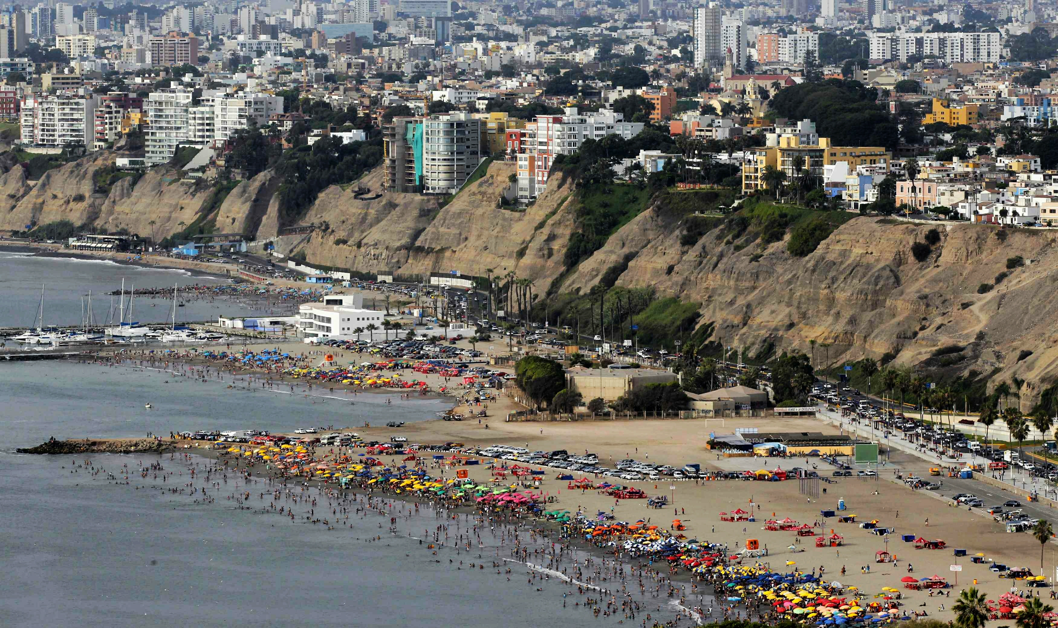 A view of Agua Dulce beach on a summer day in Lima, Peru.